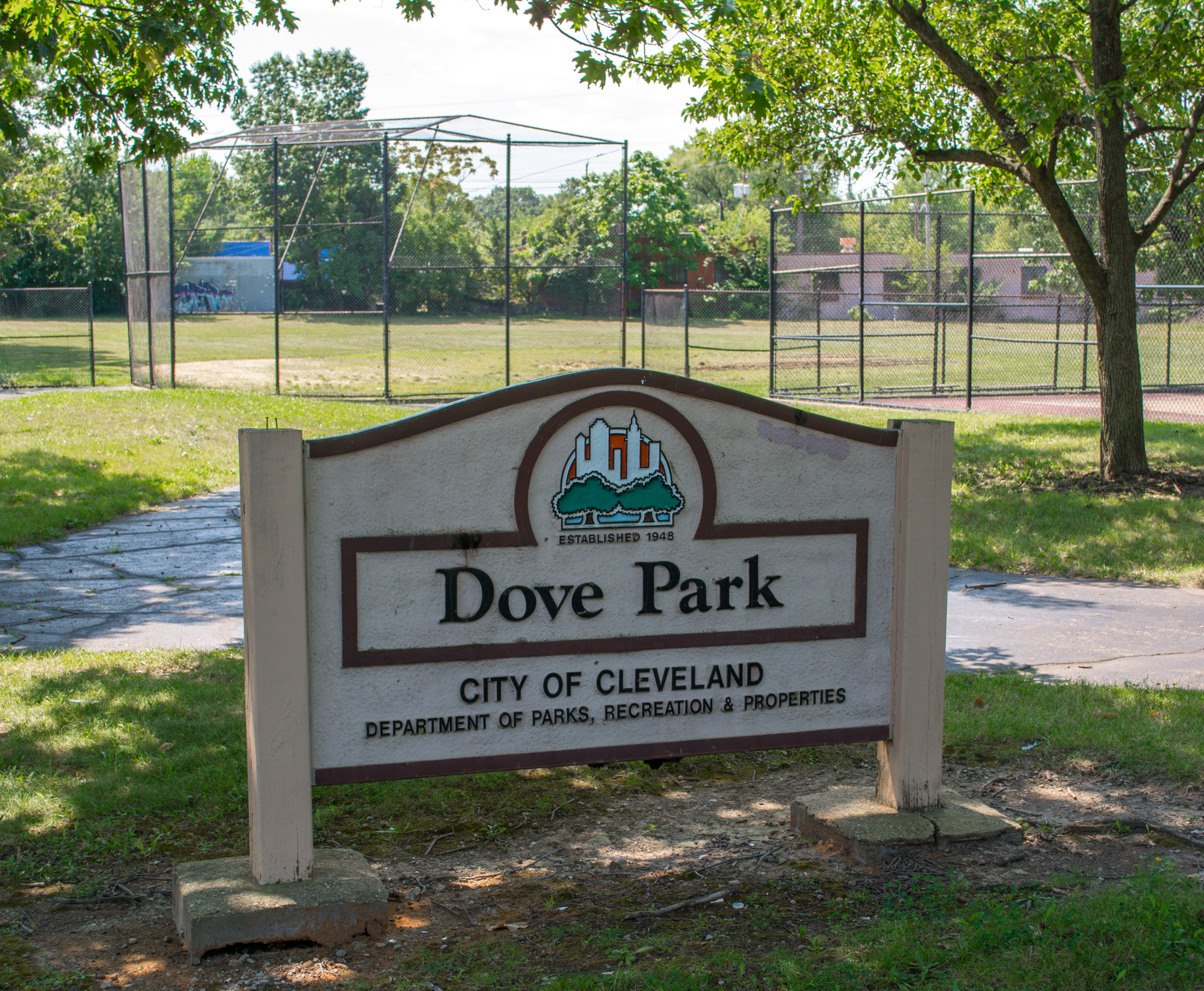 Sign at Dove Park, located at E. 102nd Street and Dove Avenue in the Union-Miles Park neighborhood of Cleveland, Ohio, in the United States. The park was first built in 1948, and underwent a major renovation in the late 1990s.